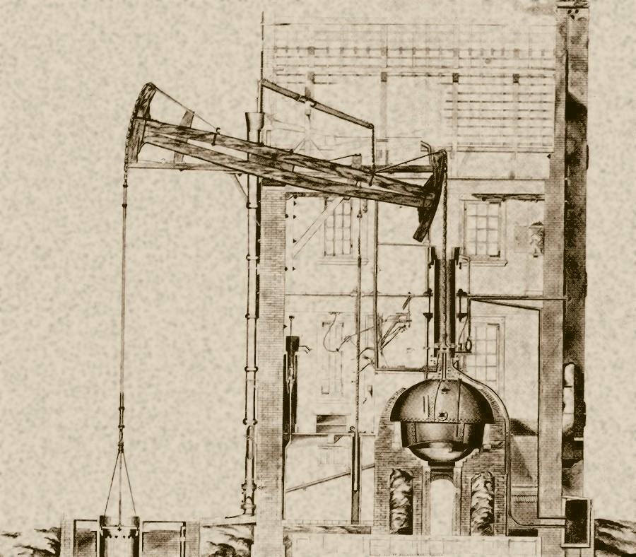 a drawing by Rinse Lieve Brouwer from the1780,s